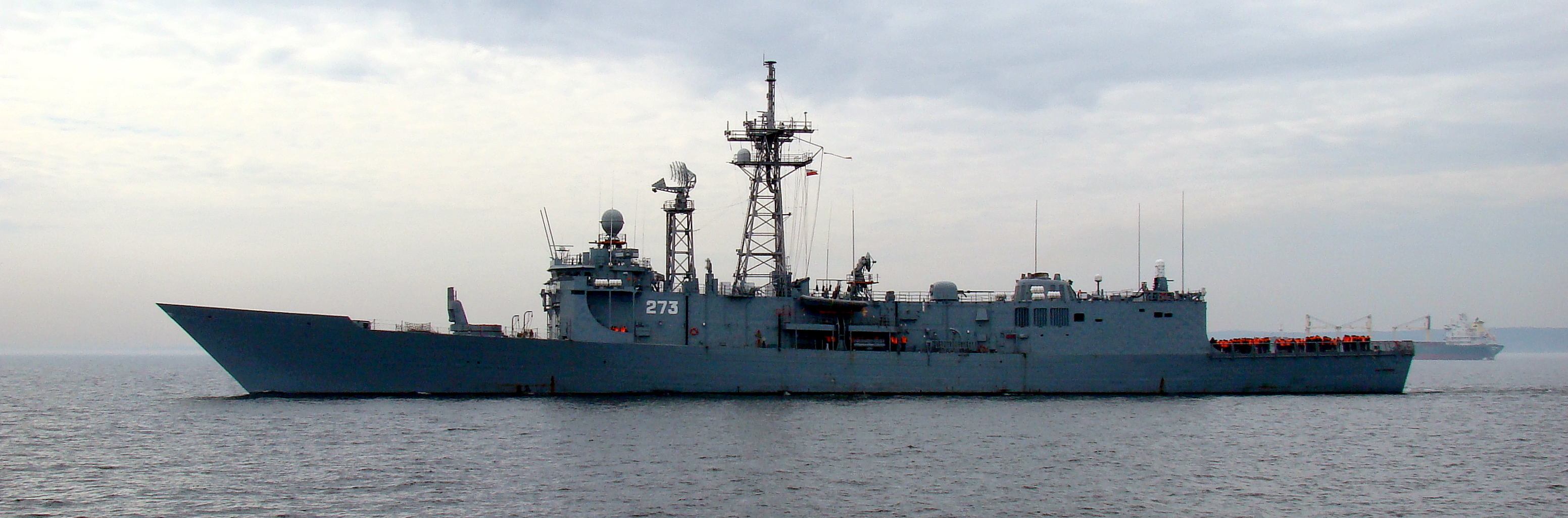 ORP Gen. T. Kościuszko, Oliver Hazard Perry-class guided-missile frigates in the Polish Navy